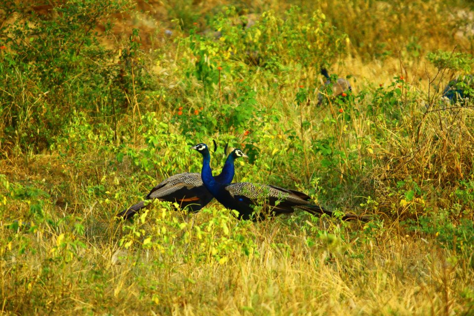 peacocks in wilderness